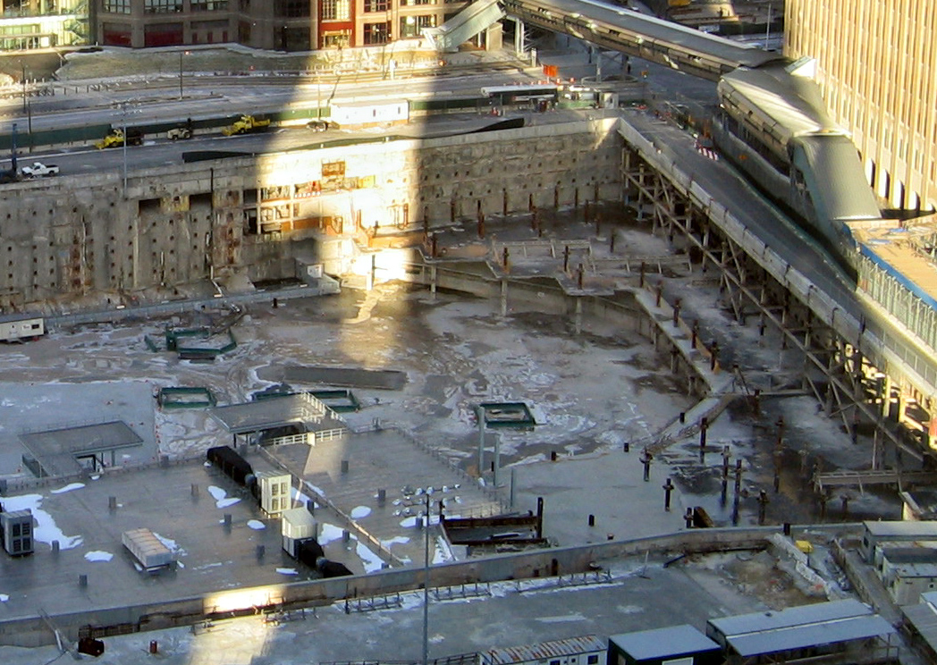 Construction of the Freedom Tower, as of January 2006. Photo by User:Aude